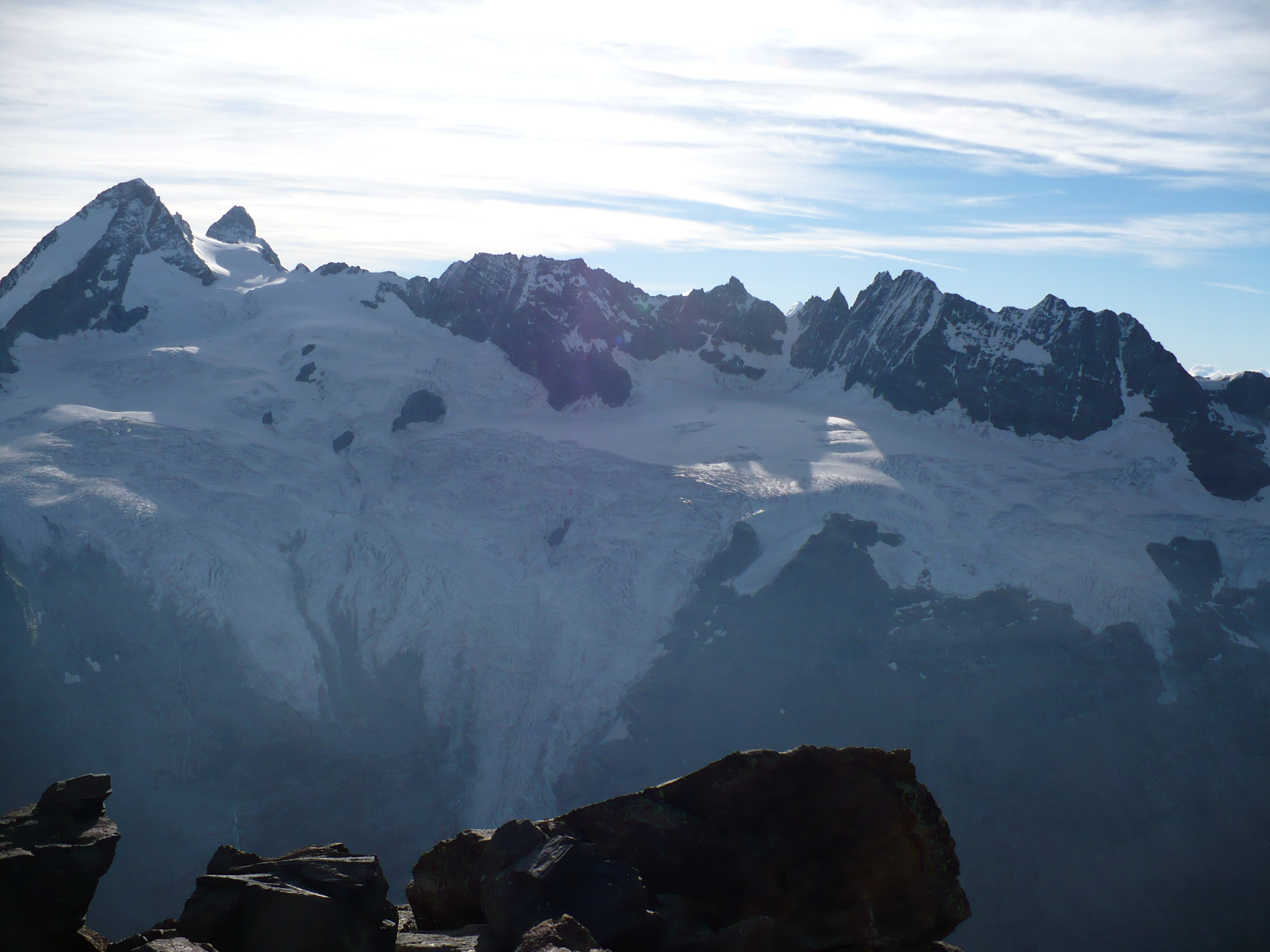 Glacier of Grandes Murailles - Valpelline - Aosta valley - Italy